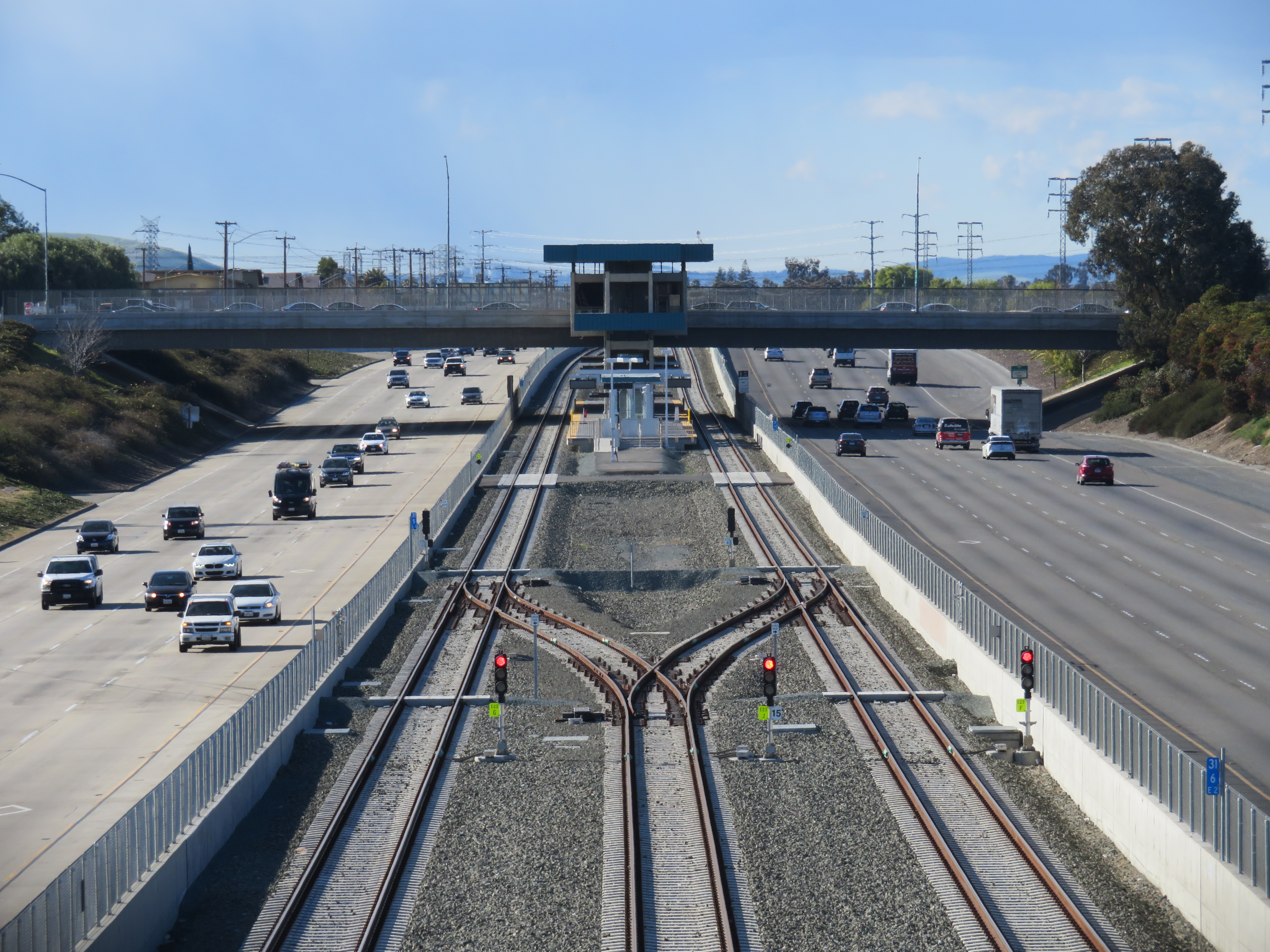 Pittsburg Center station and pocket track under construction in February 2018